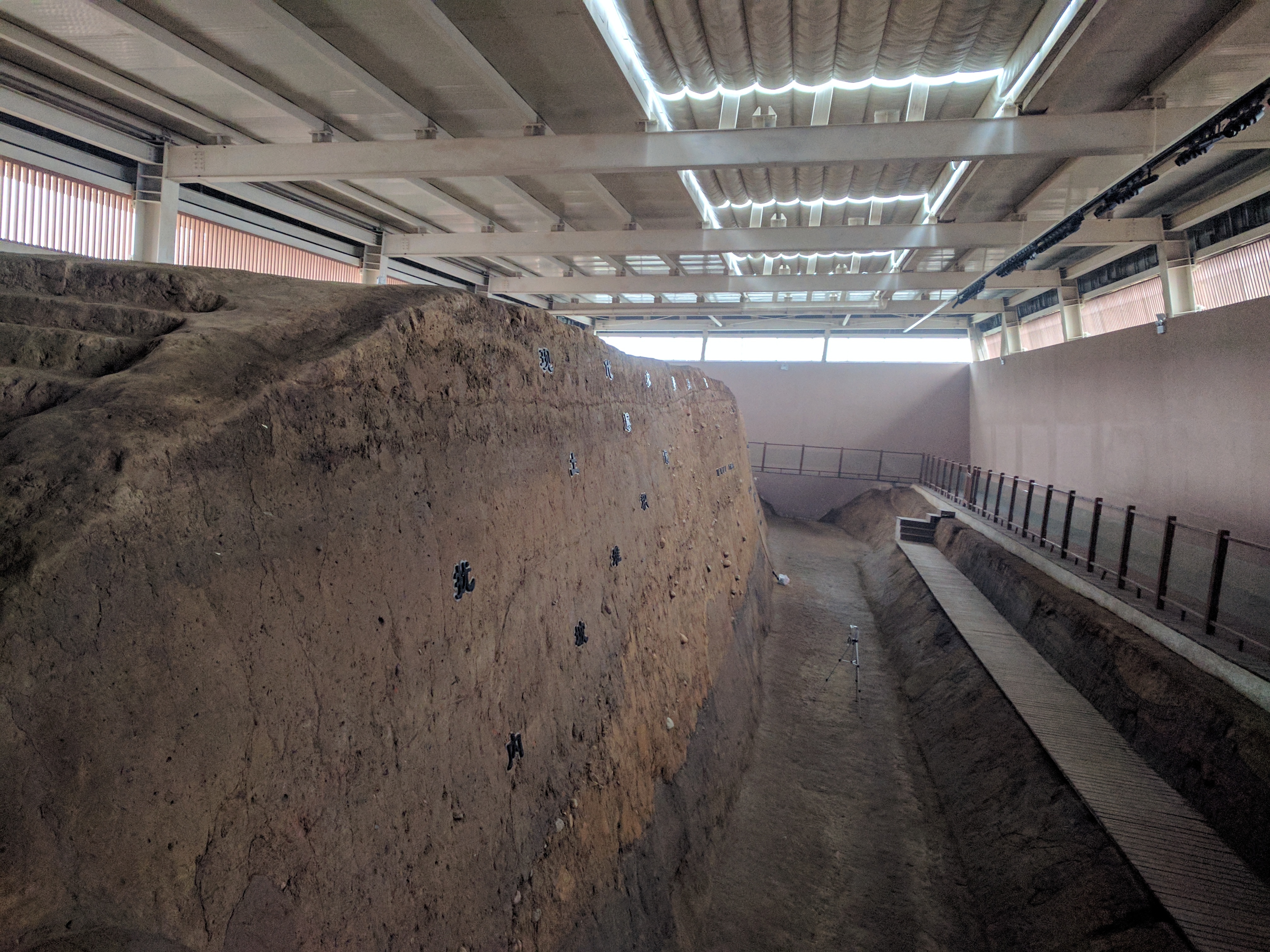 The Ancient City Wall of the Chengtoushan Ruin